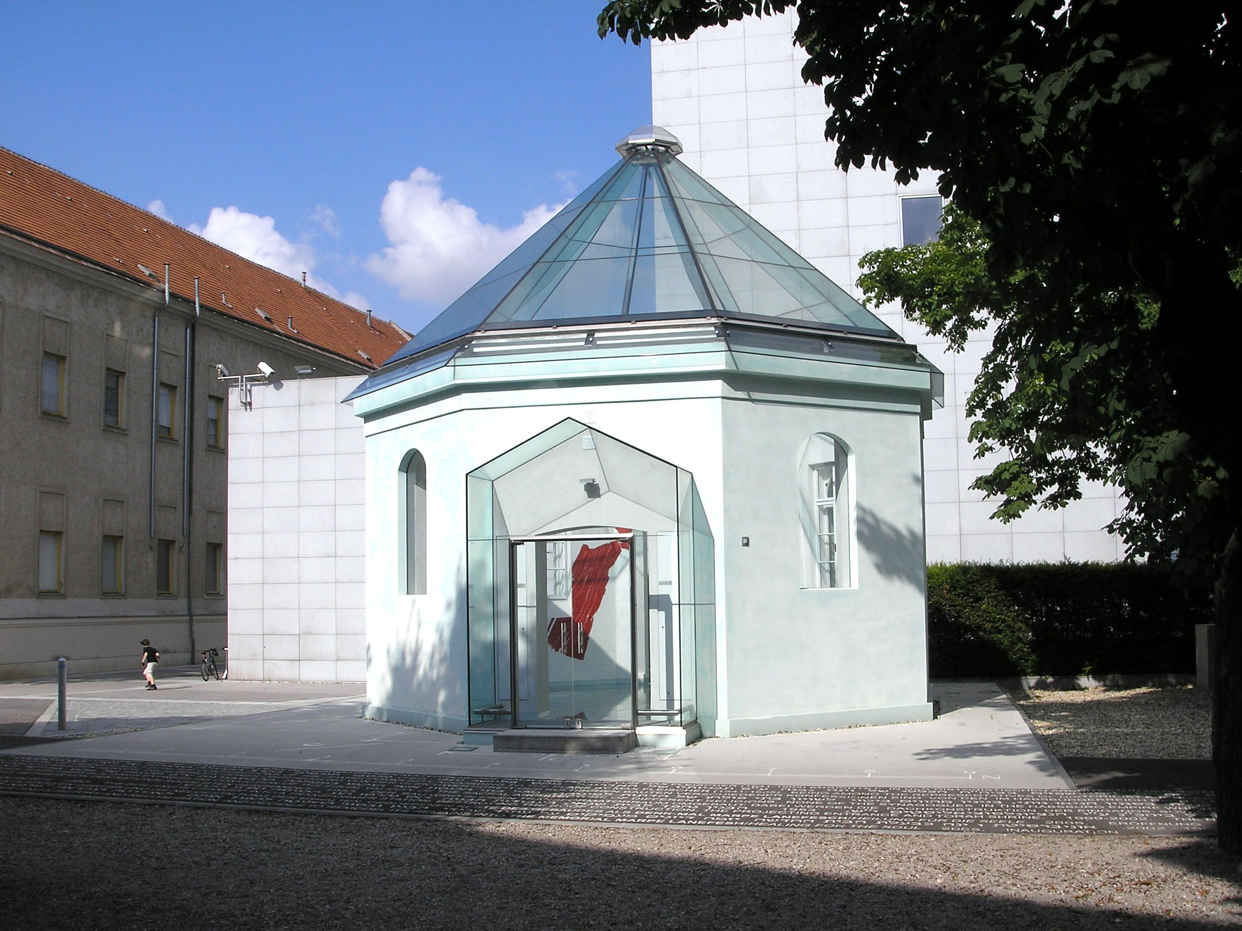 Detailed view of the synagogue in the Allgemeines Krankenhaus Wien. Constructed by Max Fleischer in 1903, devastated by the Nazis in 1938, renovated in 2005.